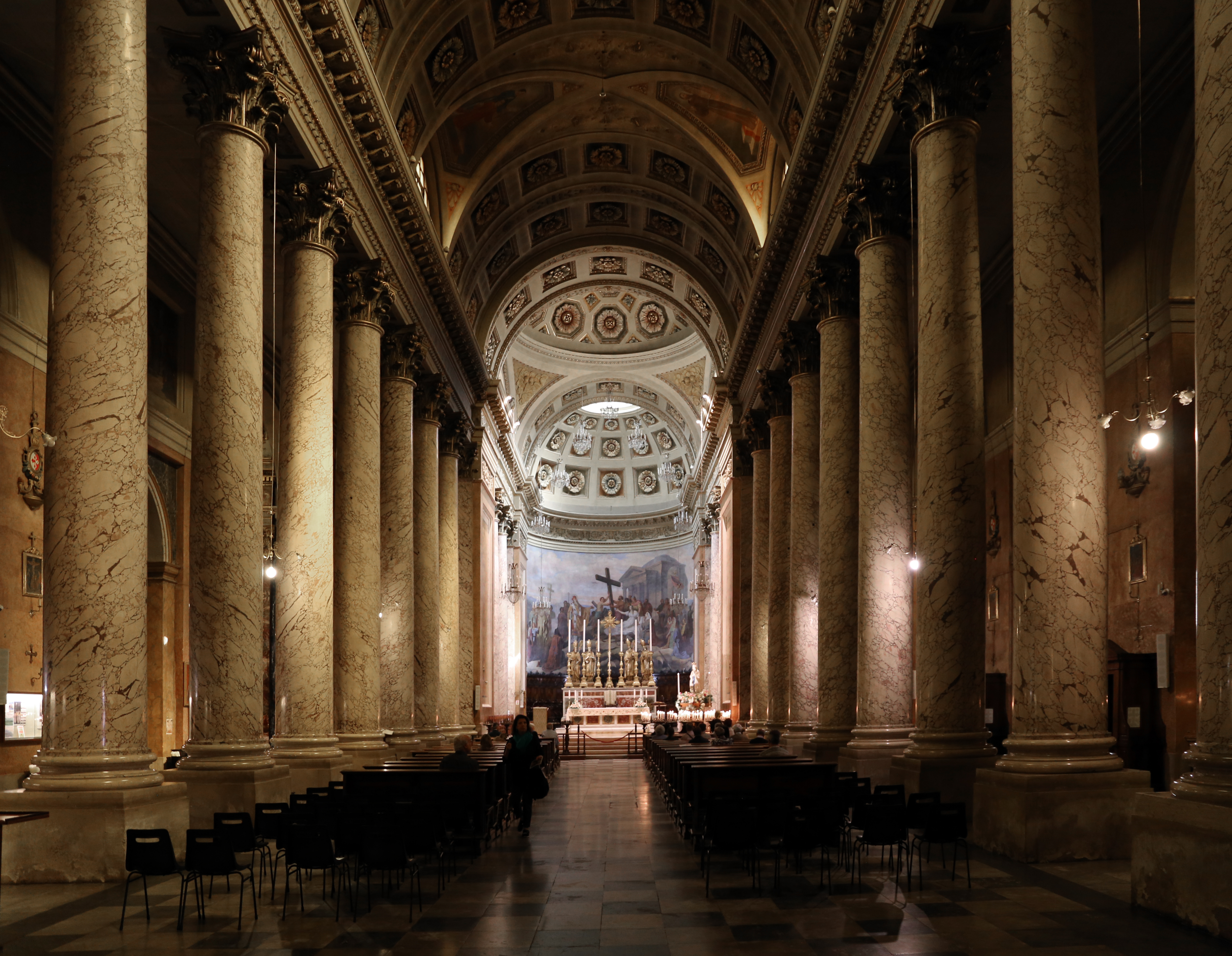 Duomo (Forlì)